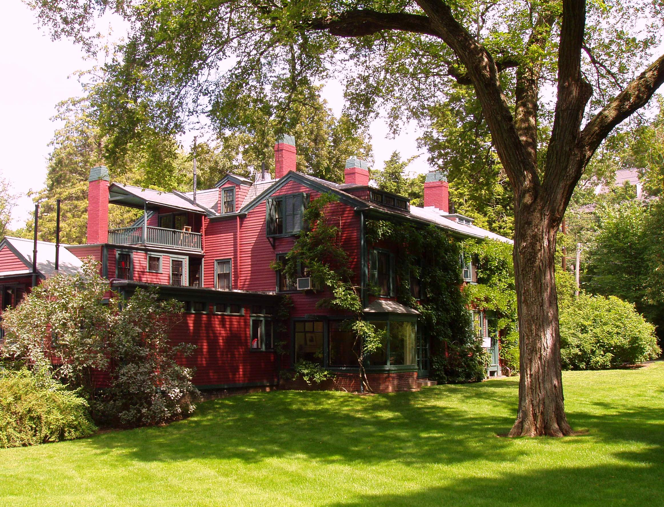 Frederick Law Olmsted National Historical Site, Brookline, Massachusetts. Photograph taken by me, August 2005.